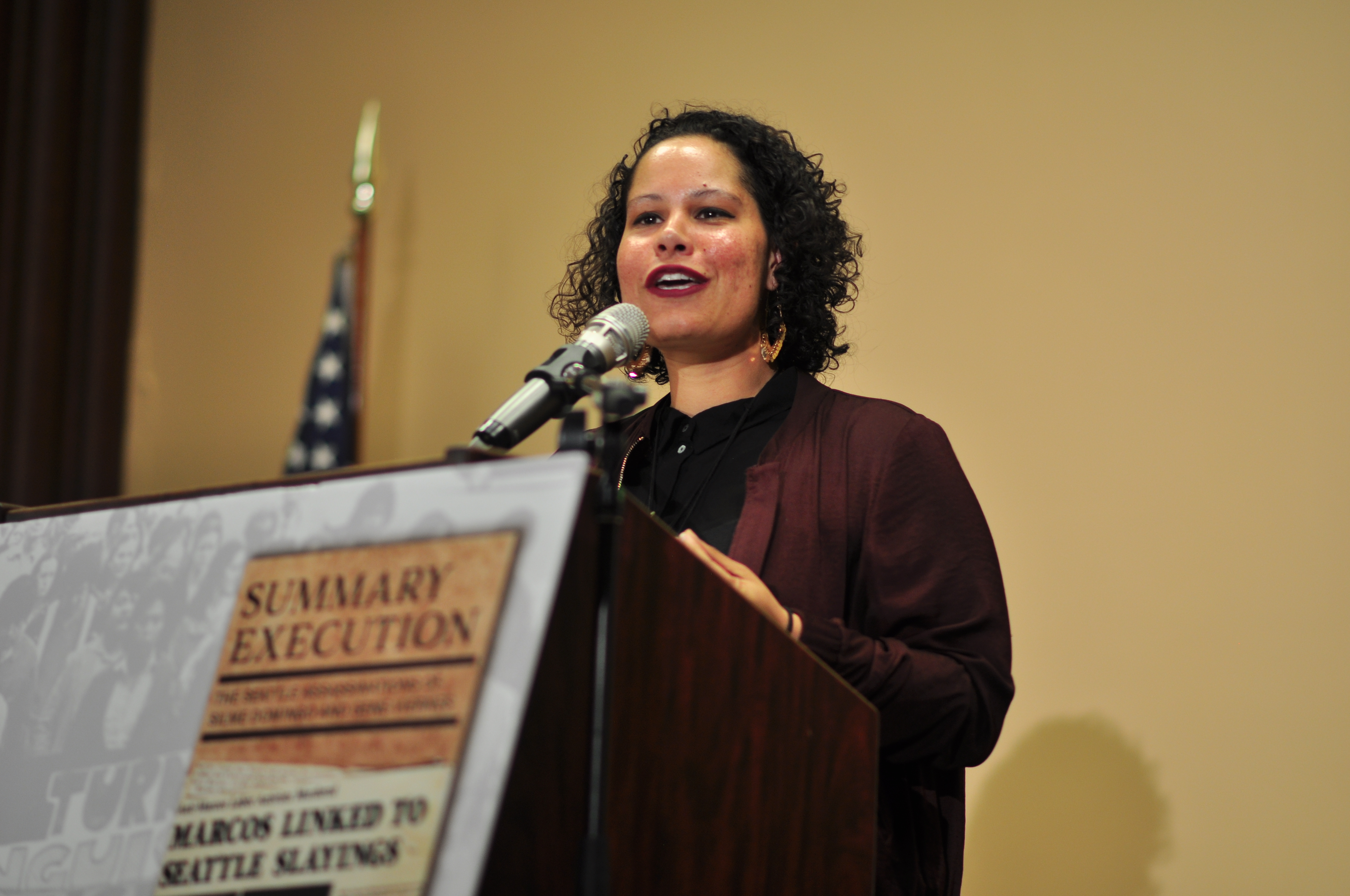 Nikkita Oliver speaking at the book launch for Summary Execution by Michael Withey, Seattle Labor Temple, March 20, 2018. The book is about the 1981 murder of labor activists Silme Domingo and Gene Viernes.